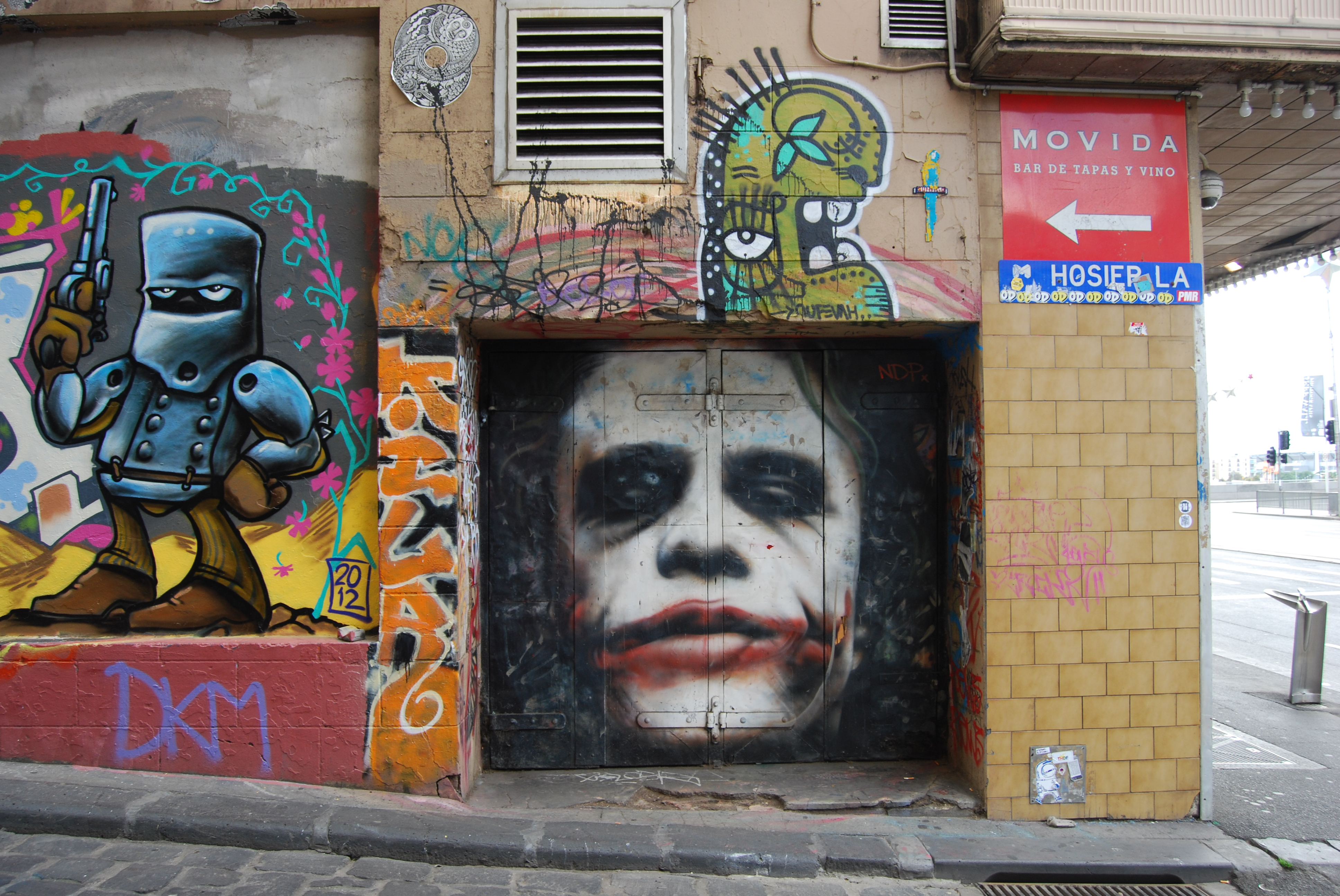 Ledger's character Joker as a part of the street art in Melbourne